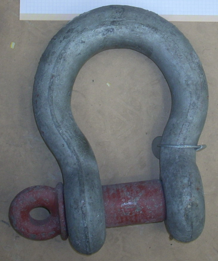 Shackle